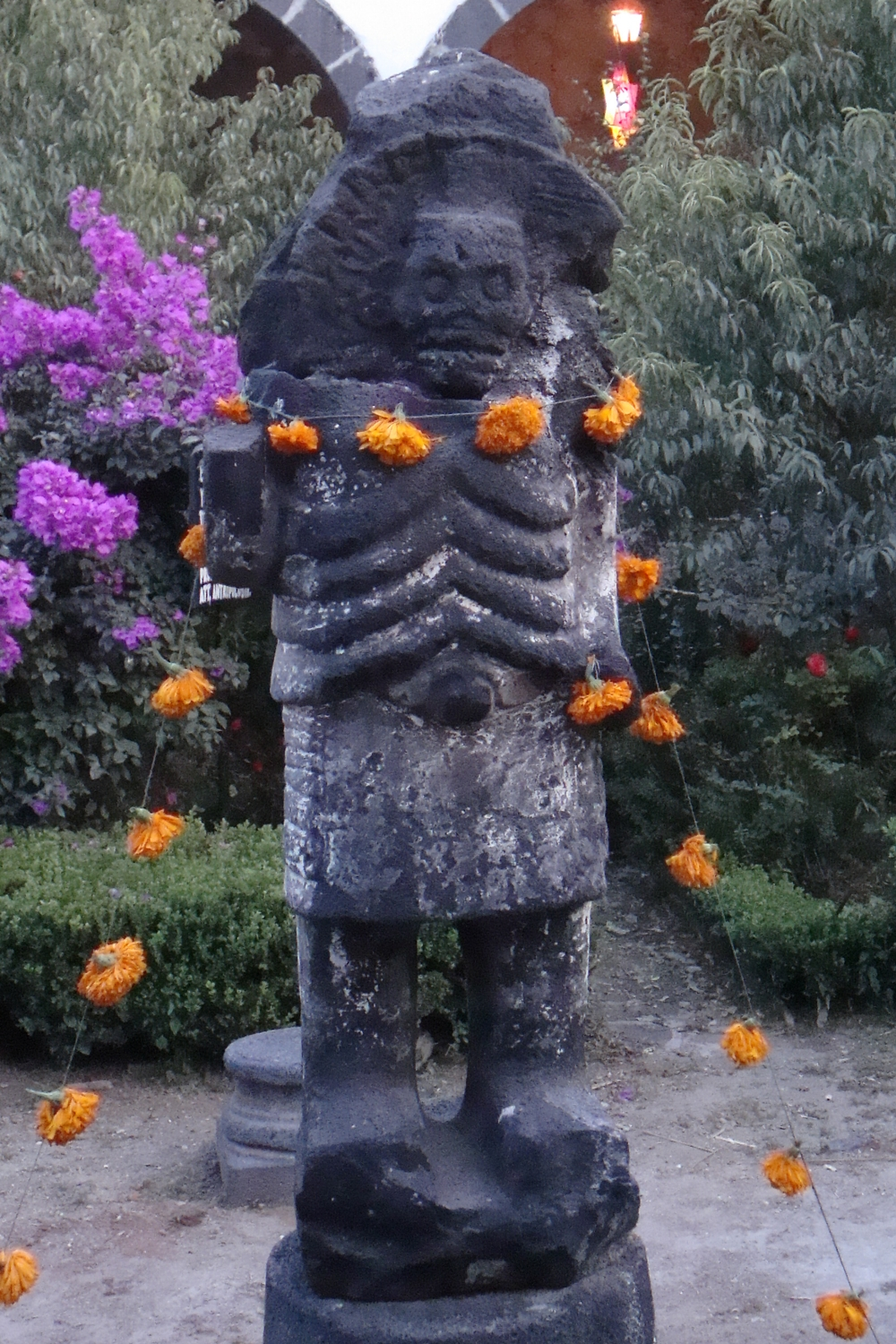 Stone statue of Mictlantecuhtli, god of the death among prehispanic nahua people. It is on exhibit at the Convent of San Andrés Apóstol de Míxquic, Mexico.